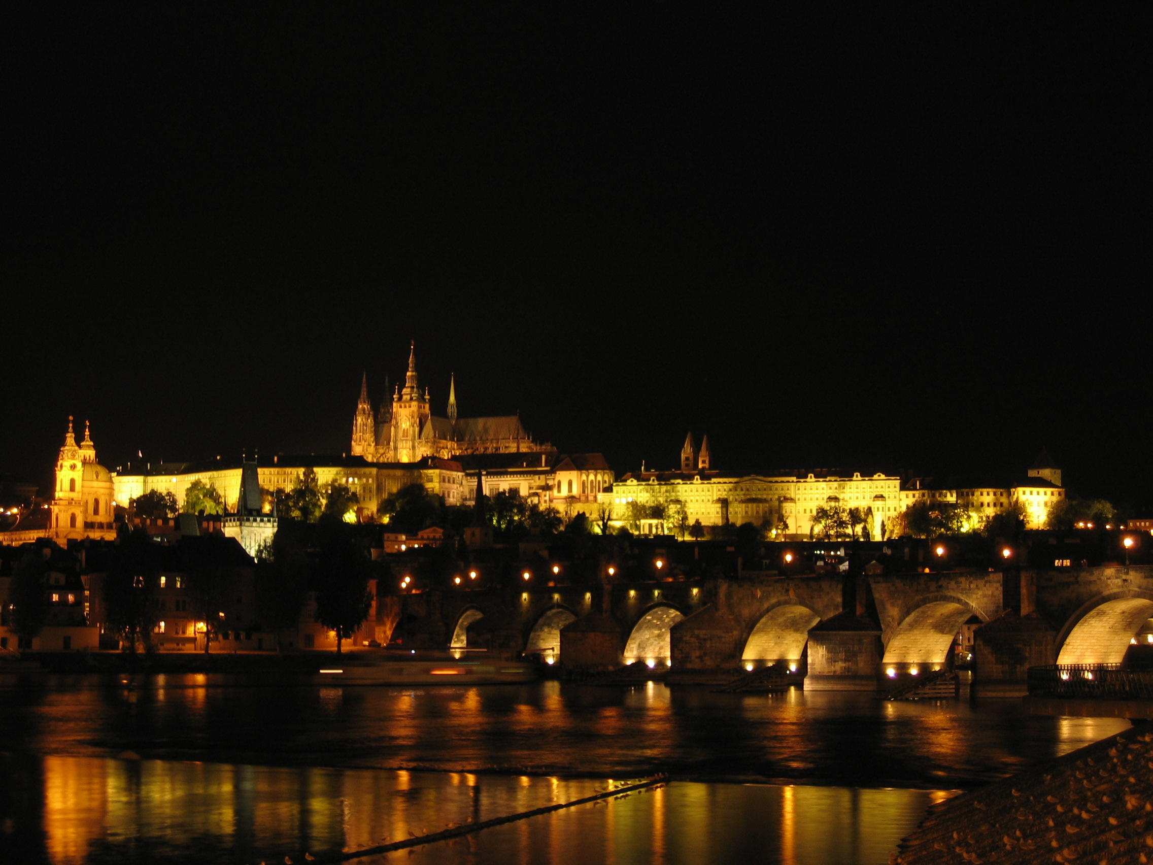 Castle Prague and Charles Bridge